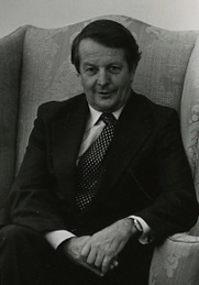 Bill Rowling while meeting President Gerald Ford